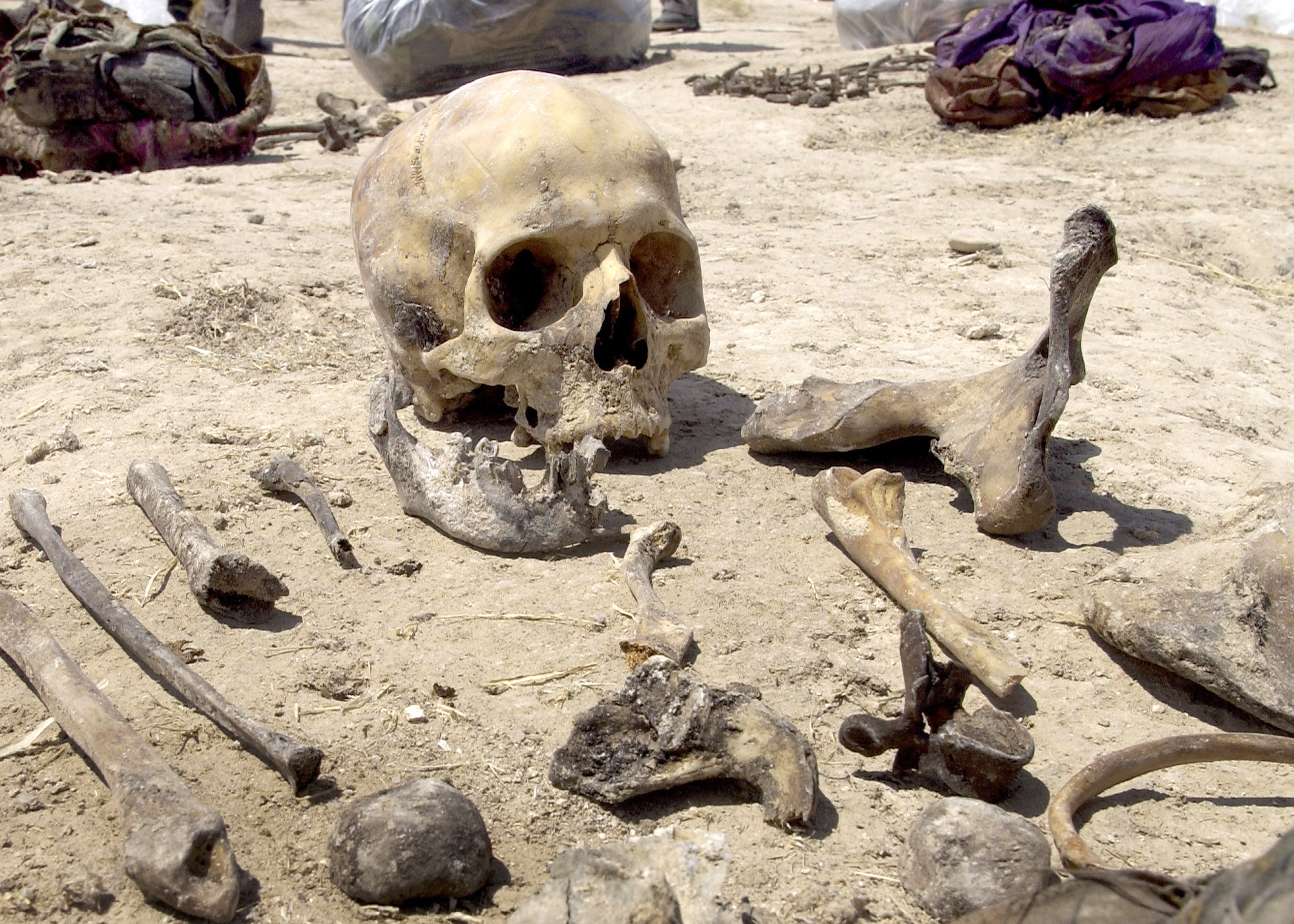 Human remains found in at a mass gravesite near Zahko, Iraqi Kurdistan, July 15, 2005. The US Army Criminal Investigation Command, along with Department of Defense forensic pathologists, are in Iraq investigating a mass grave crime scene to gather evidence for possible war crimes trials.